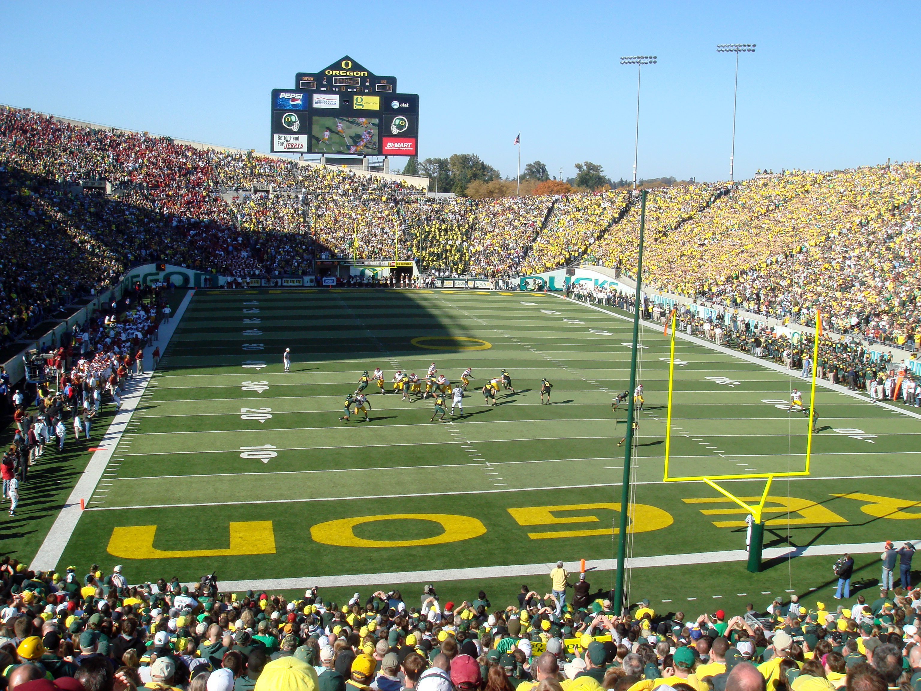 Autzen Stadium, home of theUniversity of Oregon Ducks football, during the 2007 season game between the USC Trojans and the Ducks; it was the first time two top-10 teams had played at Autzen in its 41-year history and broke the stadium attendance record with 59,277. The Ducks, slightly favored, won the game: 24–17.